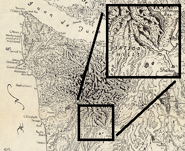 Inset map showing Satsop Hills in context of Olympic Peninsula. Derived from PD image File:Raisz 1941 Olympic Peninsula Puget Sound.png